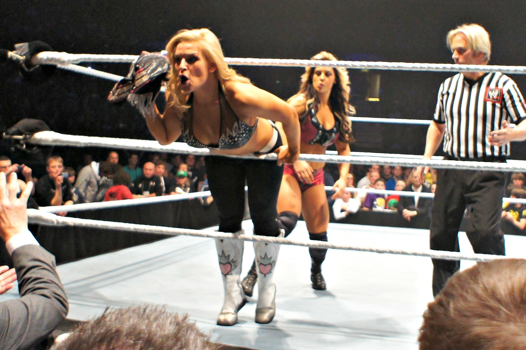 Kaitlyn wrestling Natalya during a WWE live event in 2012, cropped from the original file.